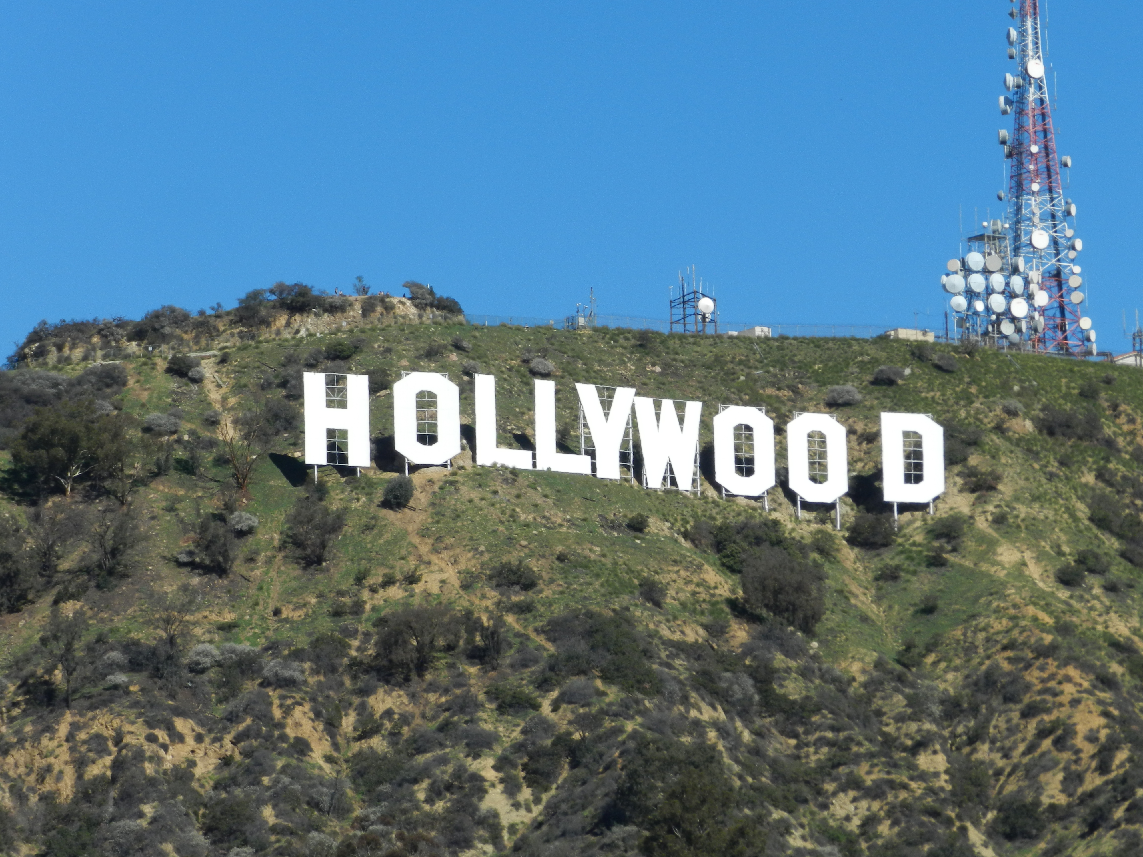 Hollywood Hills, Los Angeles, CA, USA